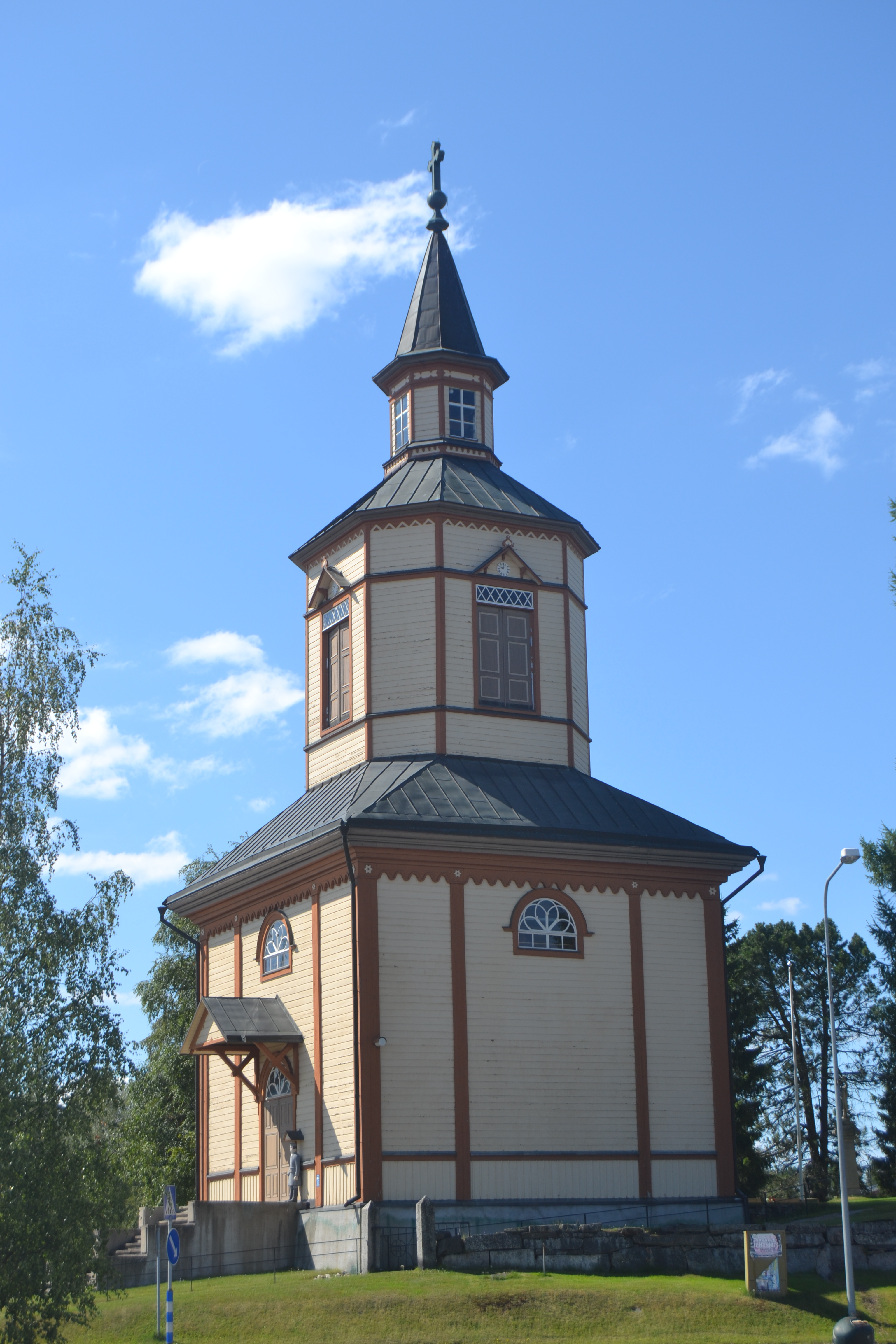 Kannus bell tower in Finland